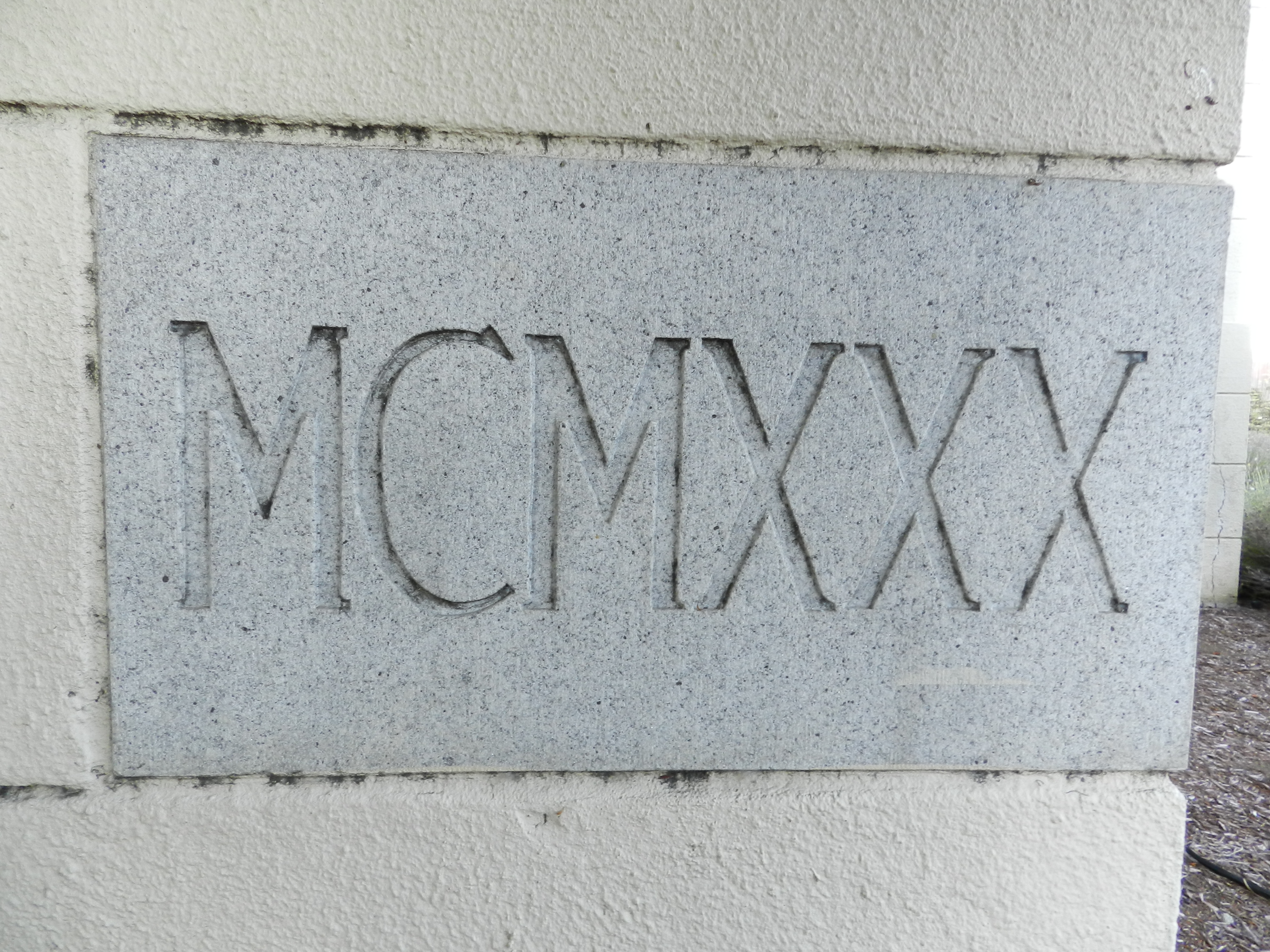 Hayward City Hall, original building's dedication stone, at Alex Giualini Plaza